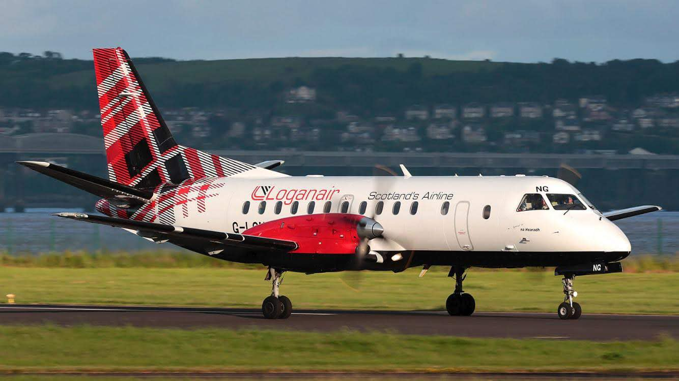 Pic